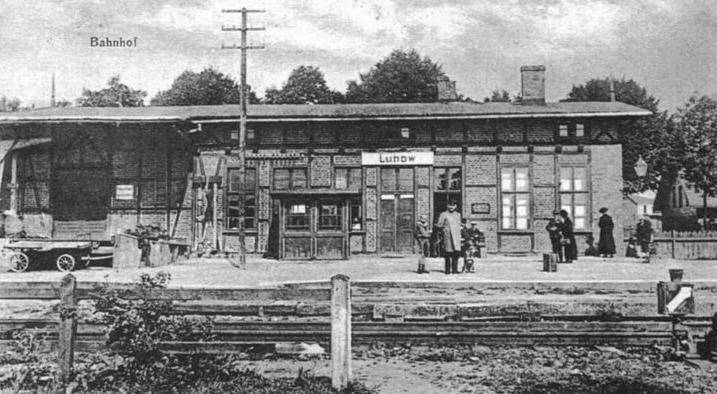 Train station in Lubowo, near Stargard, Poland